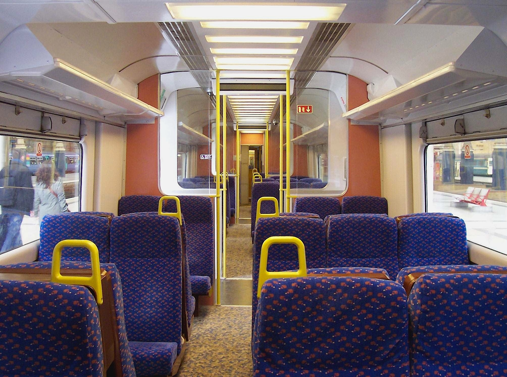 'one' Railway 2006 refreshed Standard Class interior